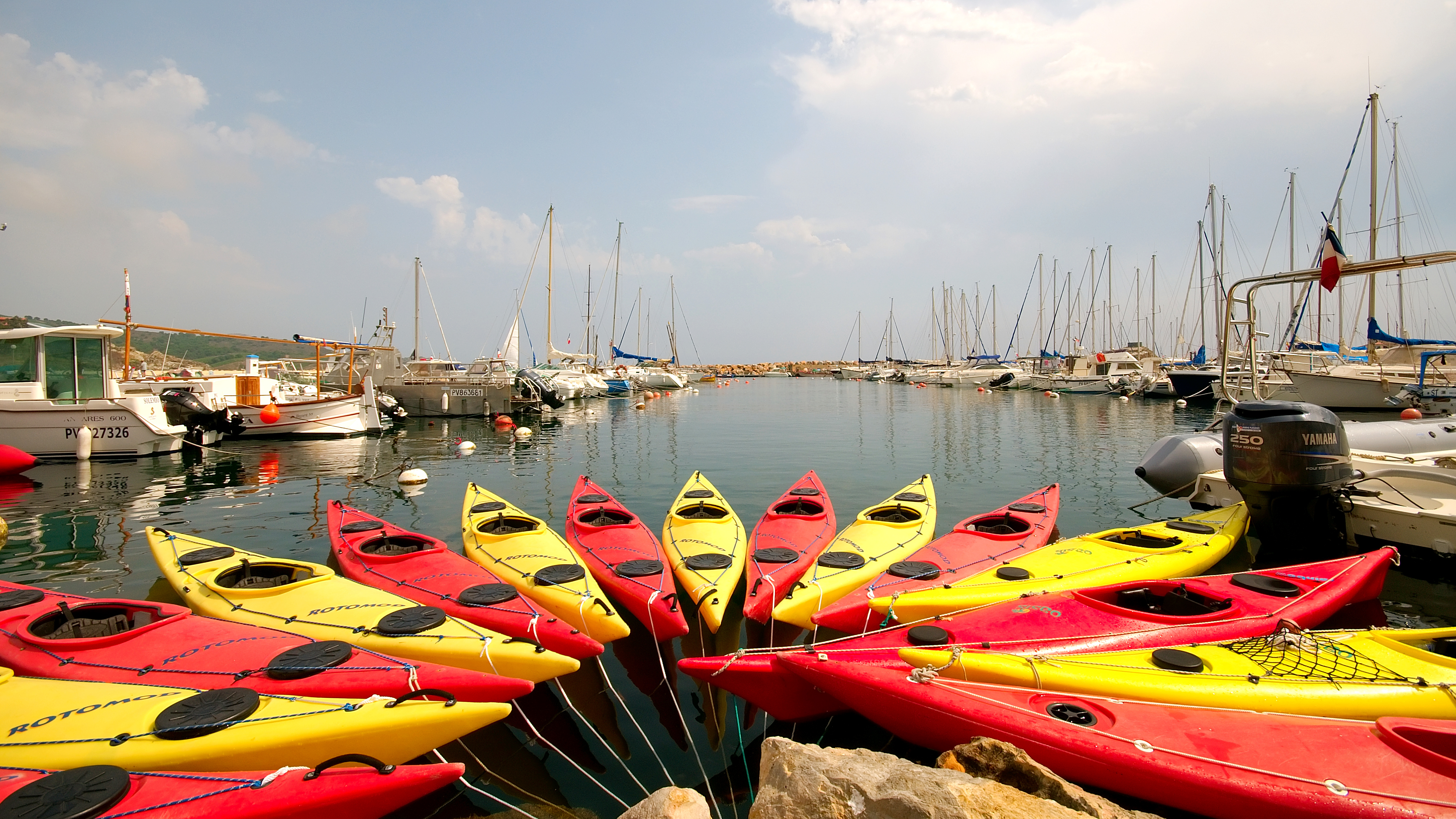 Banyuls sur mer (France)